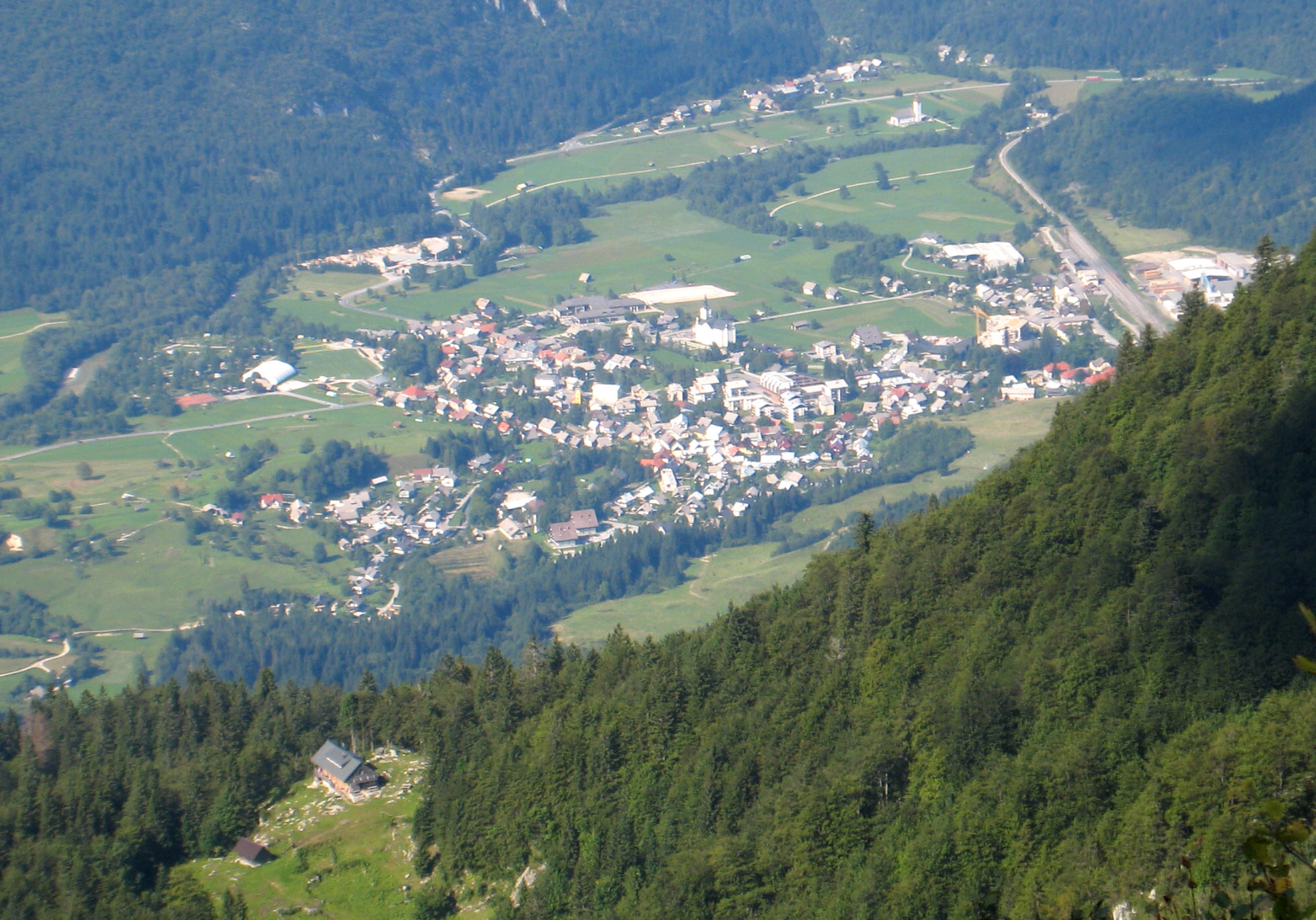 Bohinjska Bistrica from above (near Črna prst, to the south). The mountain hut you can see in the foreground (somewhat) is the new "Orožnova koča" in the Za Liscem alpine pasture at 1346 m altitude. The original Orožnova koča was the first mountain hut in Slovenia, but later burnt down.